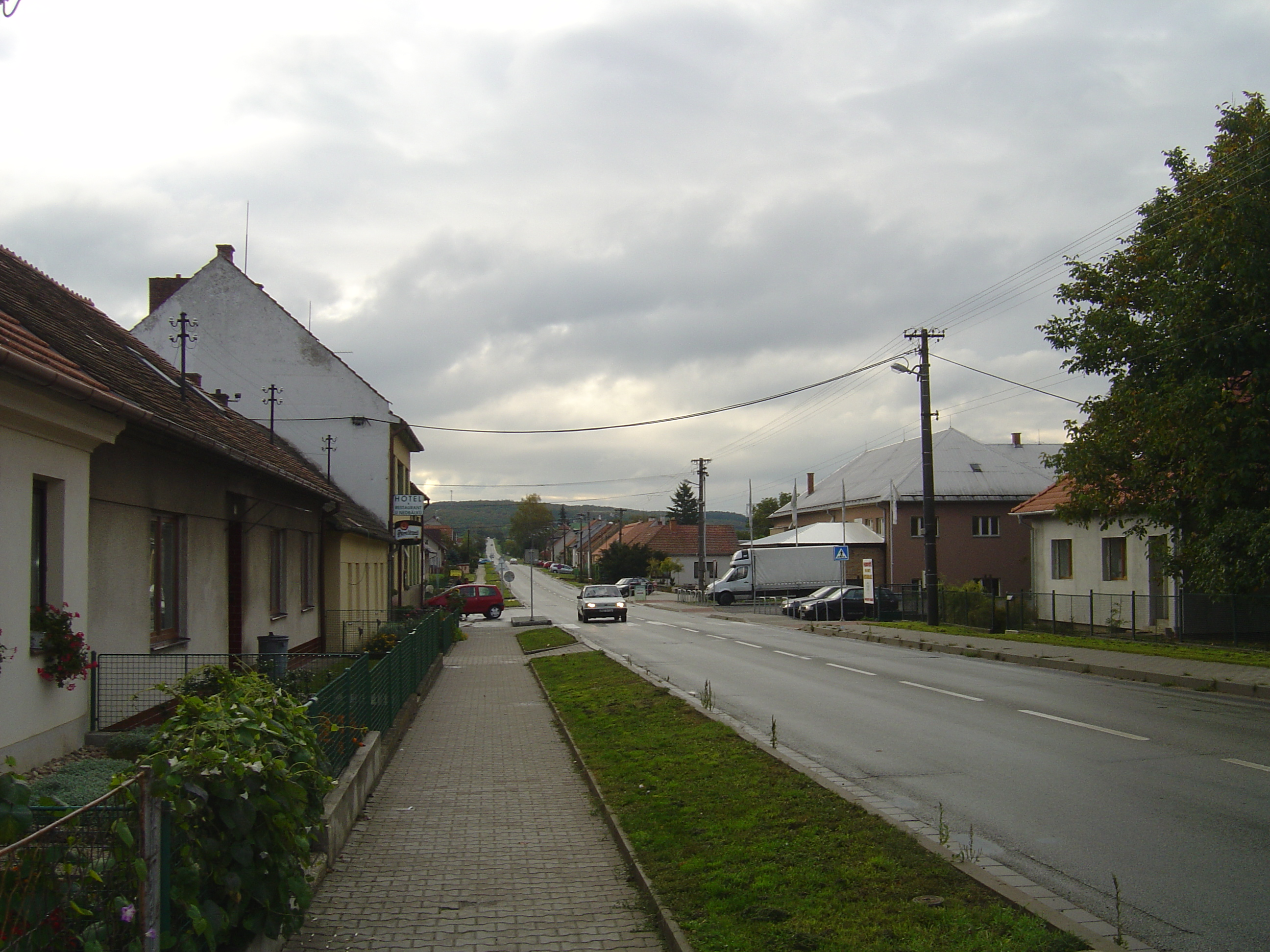 Ostrovačice: the main street Osvobození in south east direction